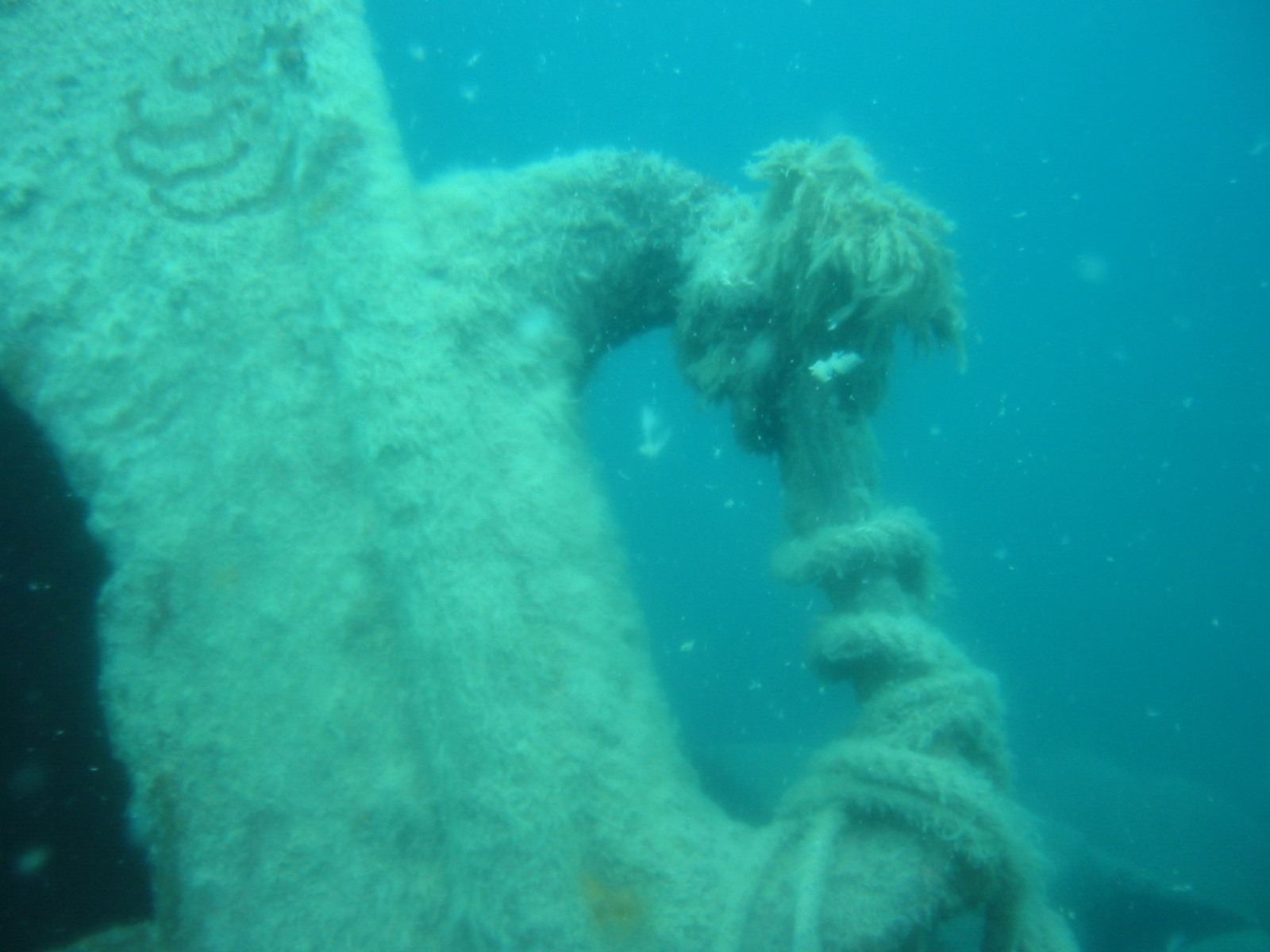 A closeup of some rigging on the Madeira (shipwreck) in Lake Superior on the north shore of Minnesota.